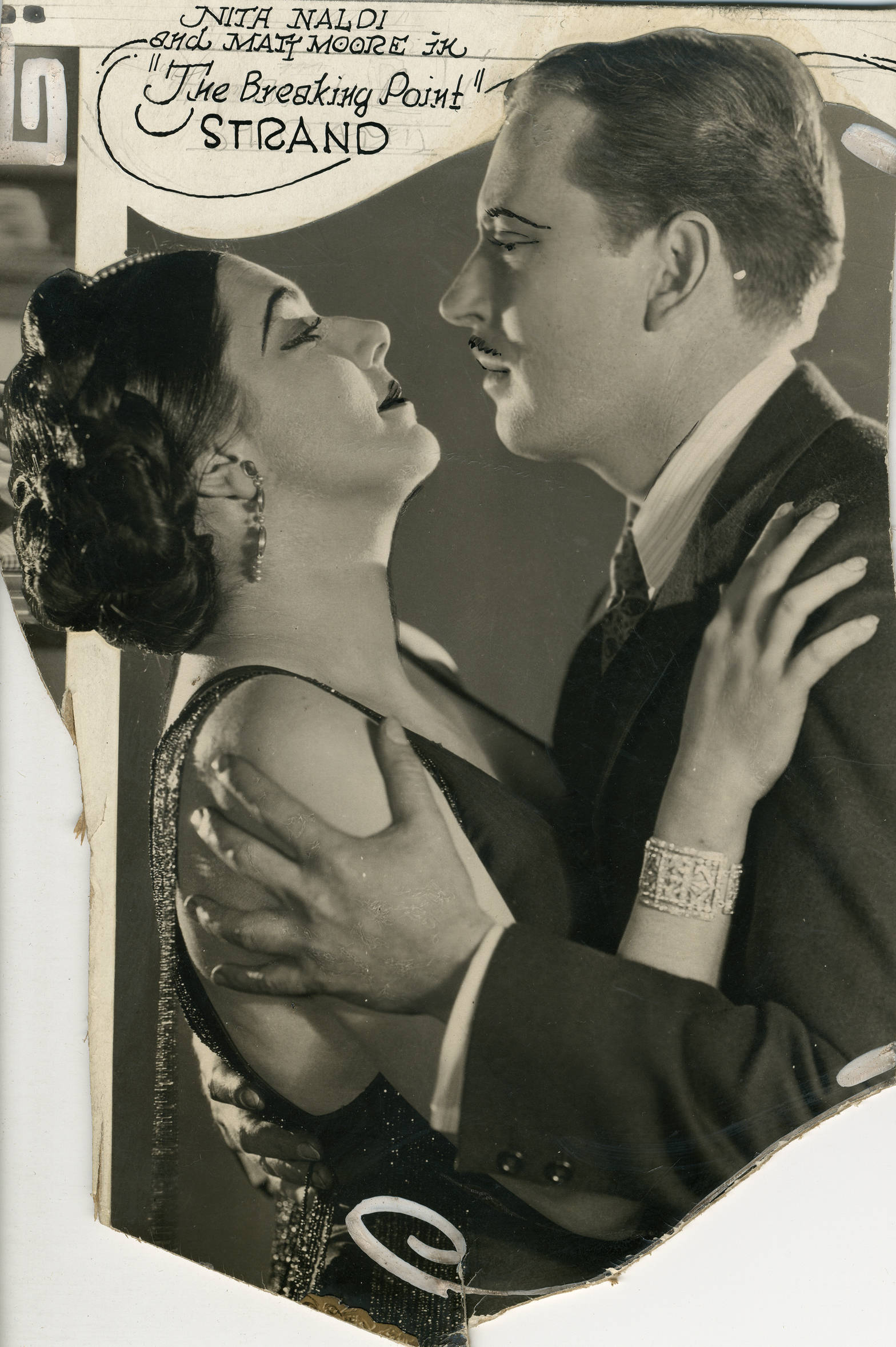 Newspaper advertisement for the film The Breaking Point (1924) with Matt Moore and Nita Naldi. Subjects: motion pictures, actresses, actors